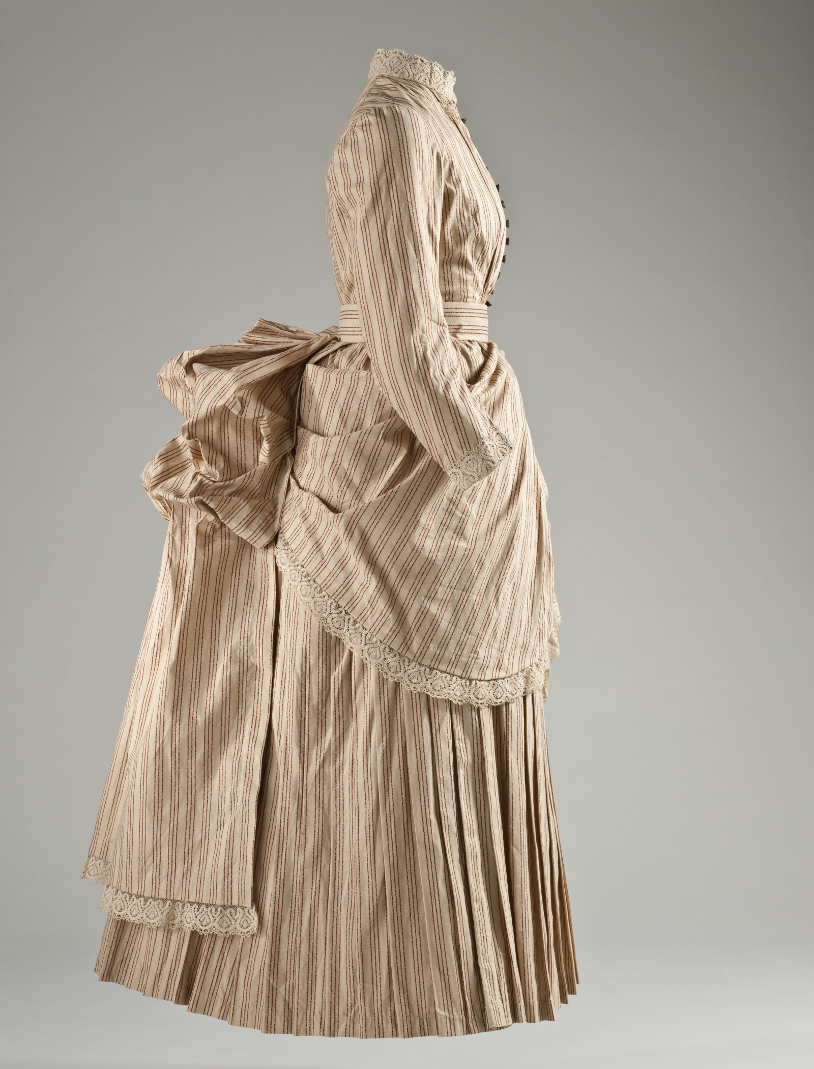 England, circa 1885 Costumes; principal attire (entire body) Cotton plain weave, printed, with cotton-lace trim Center back length A: 50 1/2 in. (128.27 cm); Center back length B: 28 1/2 in. (72.39 cm) Purchased with funds provided by Suzanne A. Saperstein and Michael and Ellen Michelson, with additional funding from the Costume Council, the Edgerton Foundation, Gail and Gerald Oppenheimer, Maureen H. Shapiro, Grace Tsao, and Lenore and Richard Wayne (M.2007.211.782a-b) Costume and Textiles